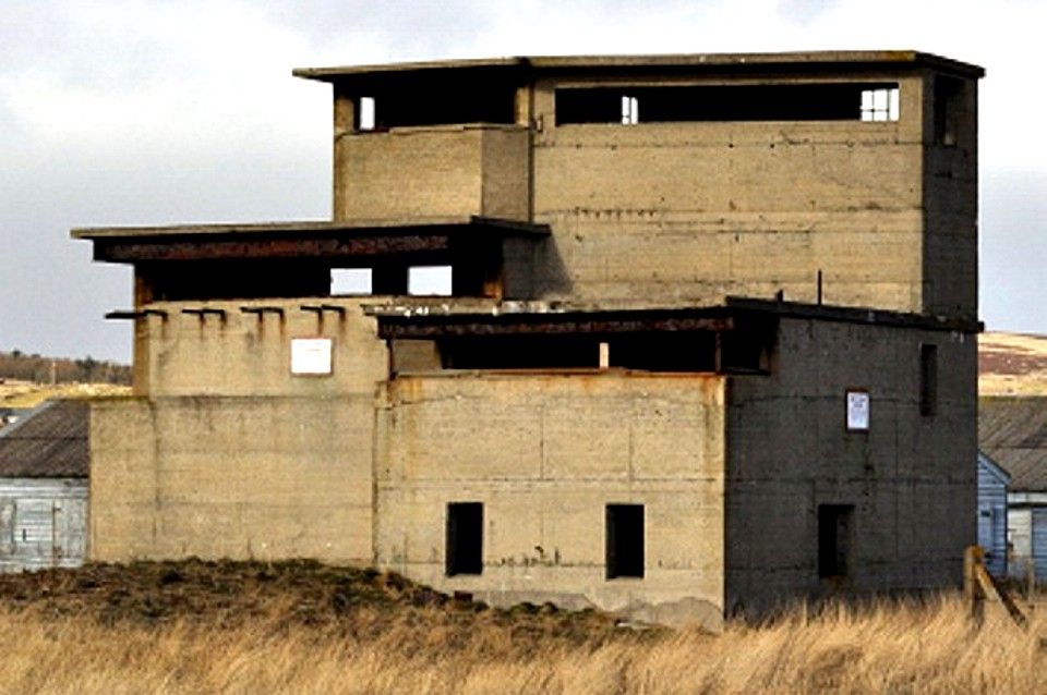 Battery Observation Post and other structures at Ness Battery, Stromness, Orkney, Scotland.